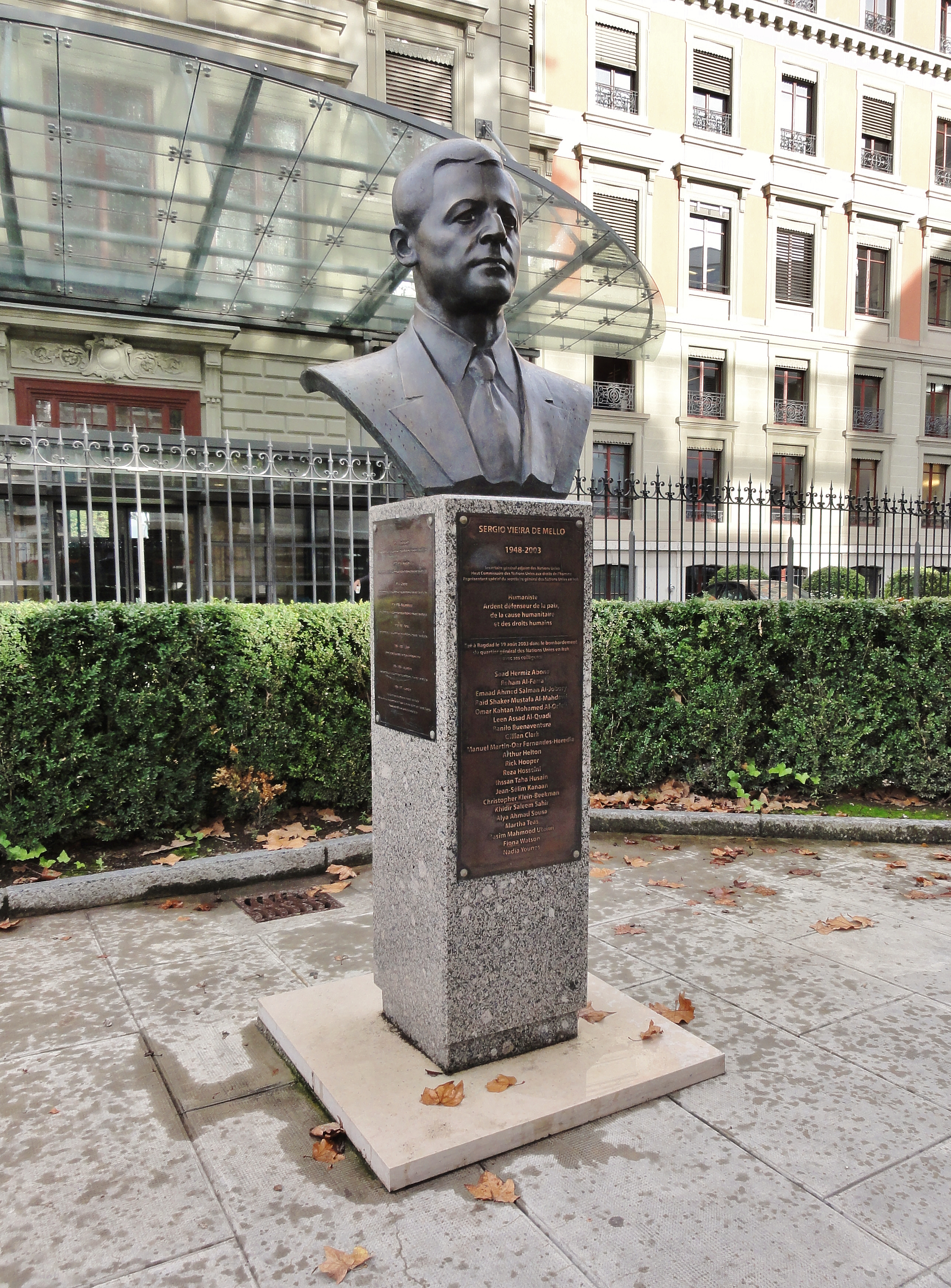 Bust of Sergio Vieira de Mello designed by Zurab Tsereteli (President of the Russian Academy of Arts) this monument behind the Palais Wilson at Geneva, Switzerland, is a gift from the Georgian-Russian painter, sculptor and architect to the Office of the United Nations High Commissioner for Human Rights (OHCHR) at June 28, 2007